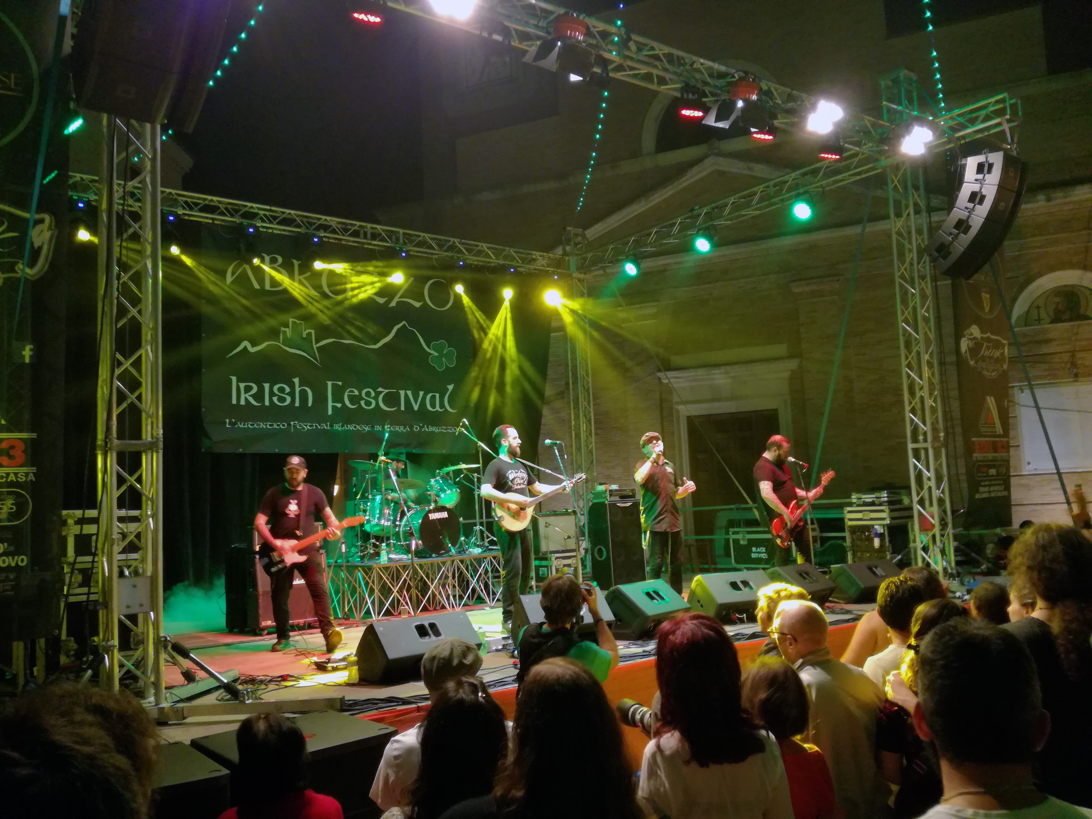 The Rumjacks at 2016 Abruzzo Irish Festival in Notaresco (TE)